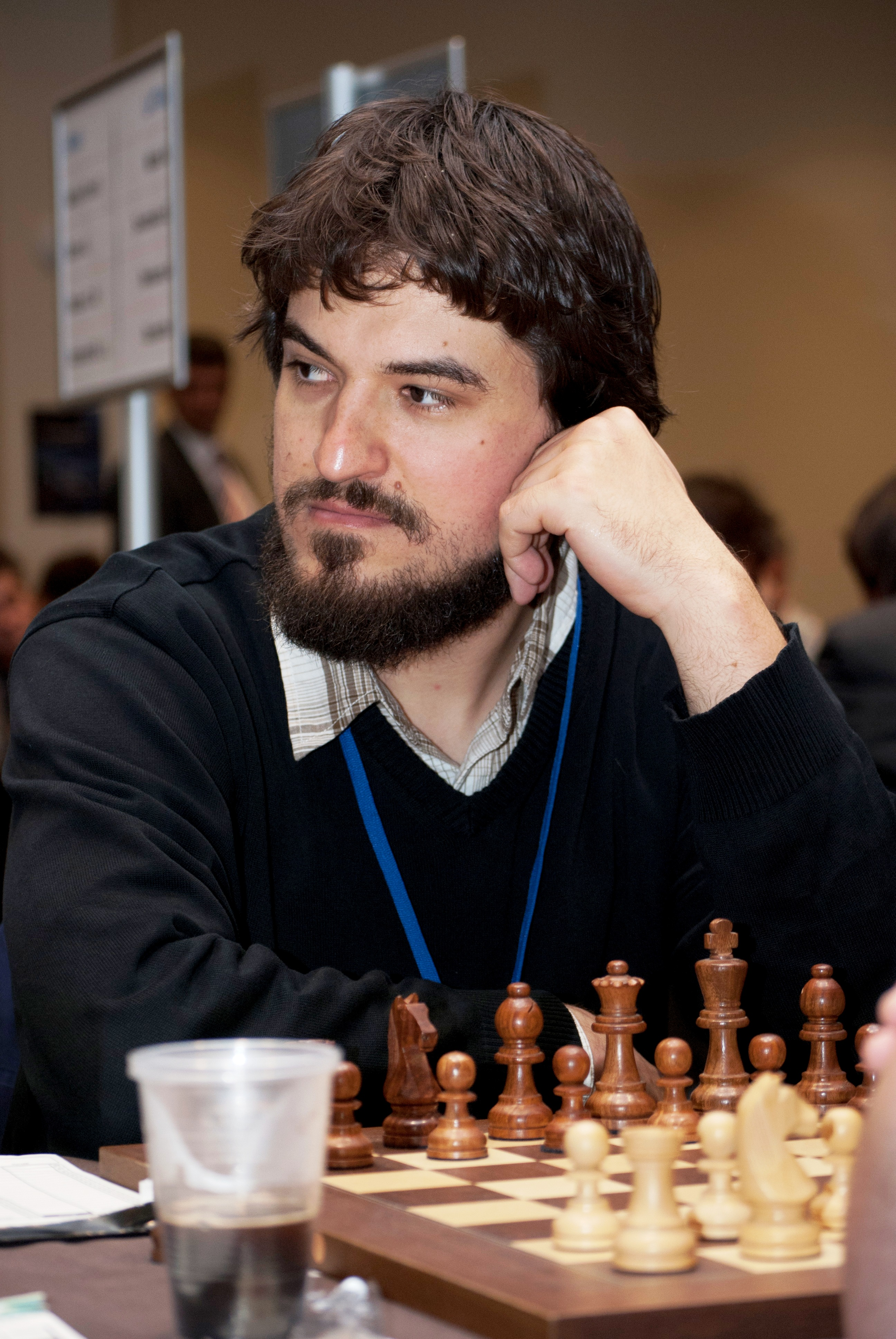 GM Jiri Stocek, Porto Carras EchT 2011.